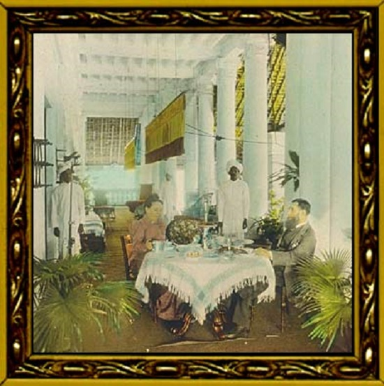 A wealthy British couple taking their meal in India, circa 1880. Punkahs (ceiling swinging fans) are visible.